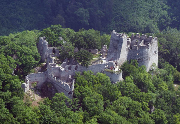 Tematín Castle, Slovakia, aerial photography